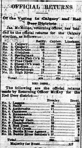 A scan depicting the publication of Official returns for early Northwest Territories elections, these specific returns are for the Calgary and Red Deer electoral districts from the 1888 Northwest Territories general election.